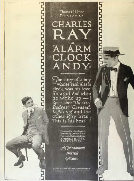 Charles Ray in Alarm Clock Andy (1920), a film directed by Jerome Stern